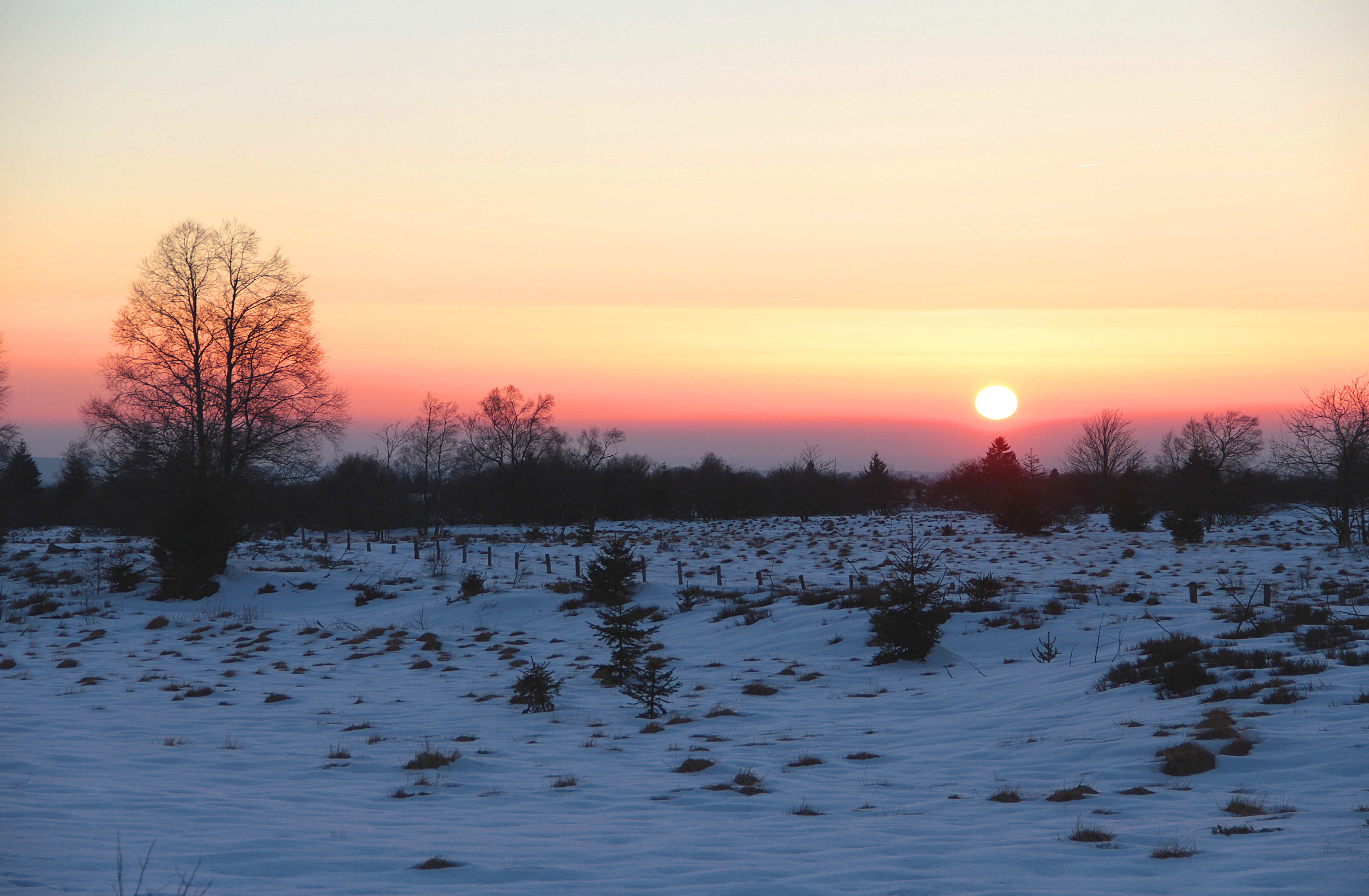 Xhoffraix - High Fens (Belgium), Grande-Fagne at dusk in the area of the place called « Trôs brôlî ».